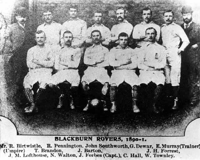 Blackburn Rovers group shot from 1890-1891. FA Cup winning team.